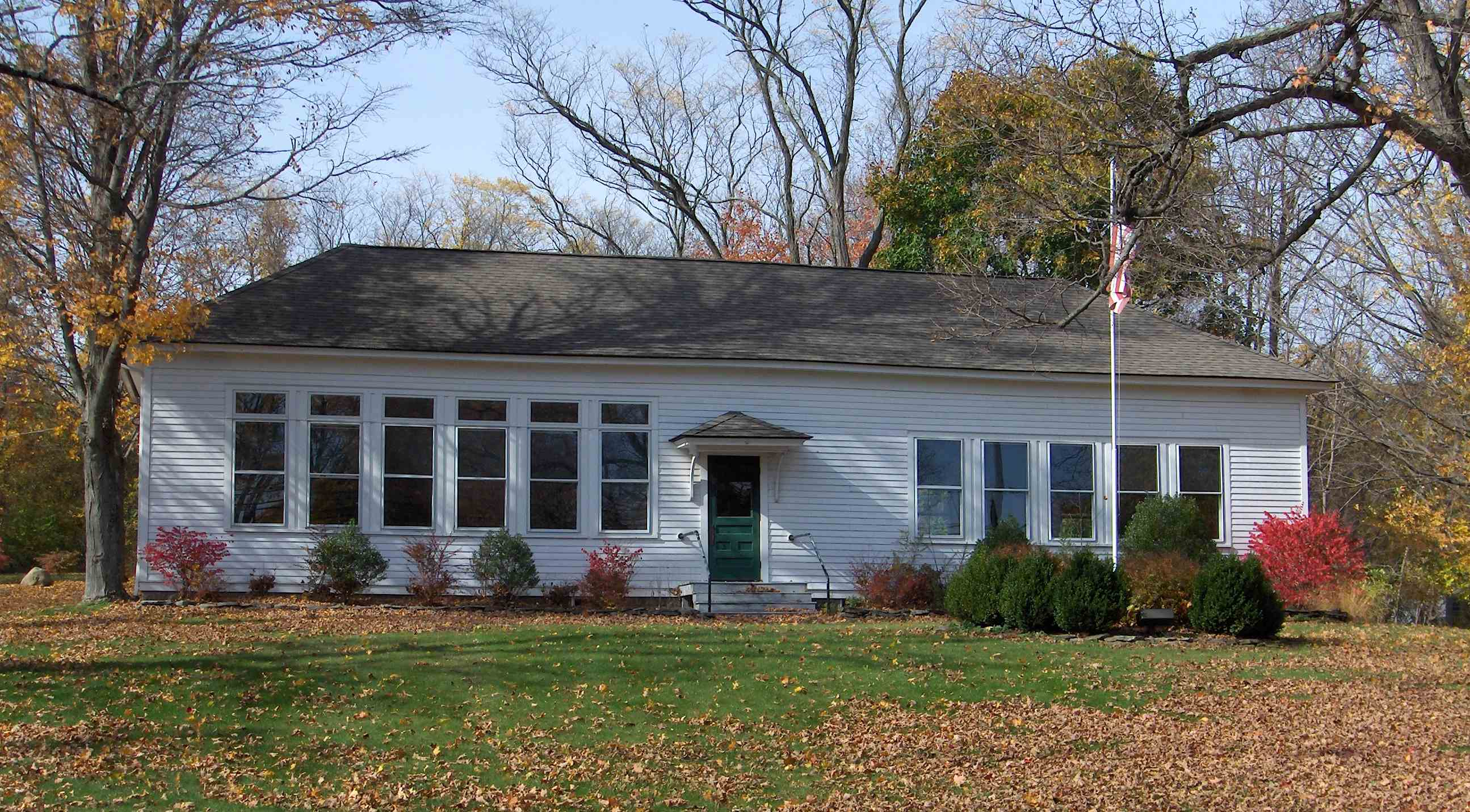 Early 20th century schoolhouse in the Marion district of Southington, CT USA